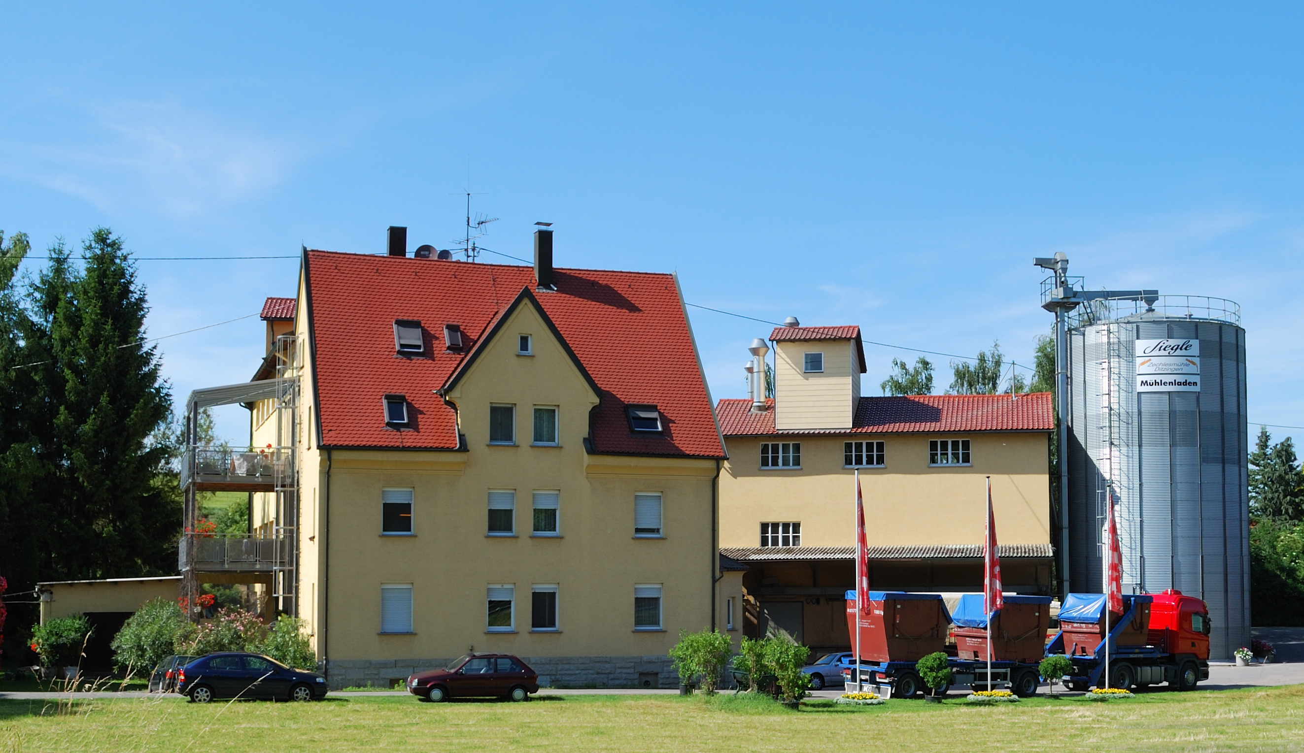 Zechlesmühle in Ditzingen, Baden-Württemberg, Germany. The mill was first mentioned in 1524. The name 'Zechlesmühle' originates from the former owner Ezechiel Siegle. Originally drived with three water wheels, since 1970 with a Ossberger turbine. One of the largest mills on the river Glems.